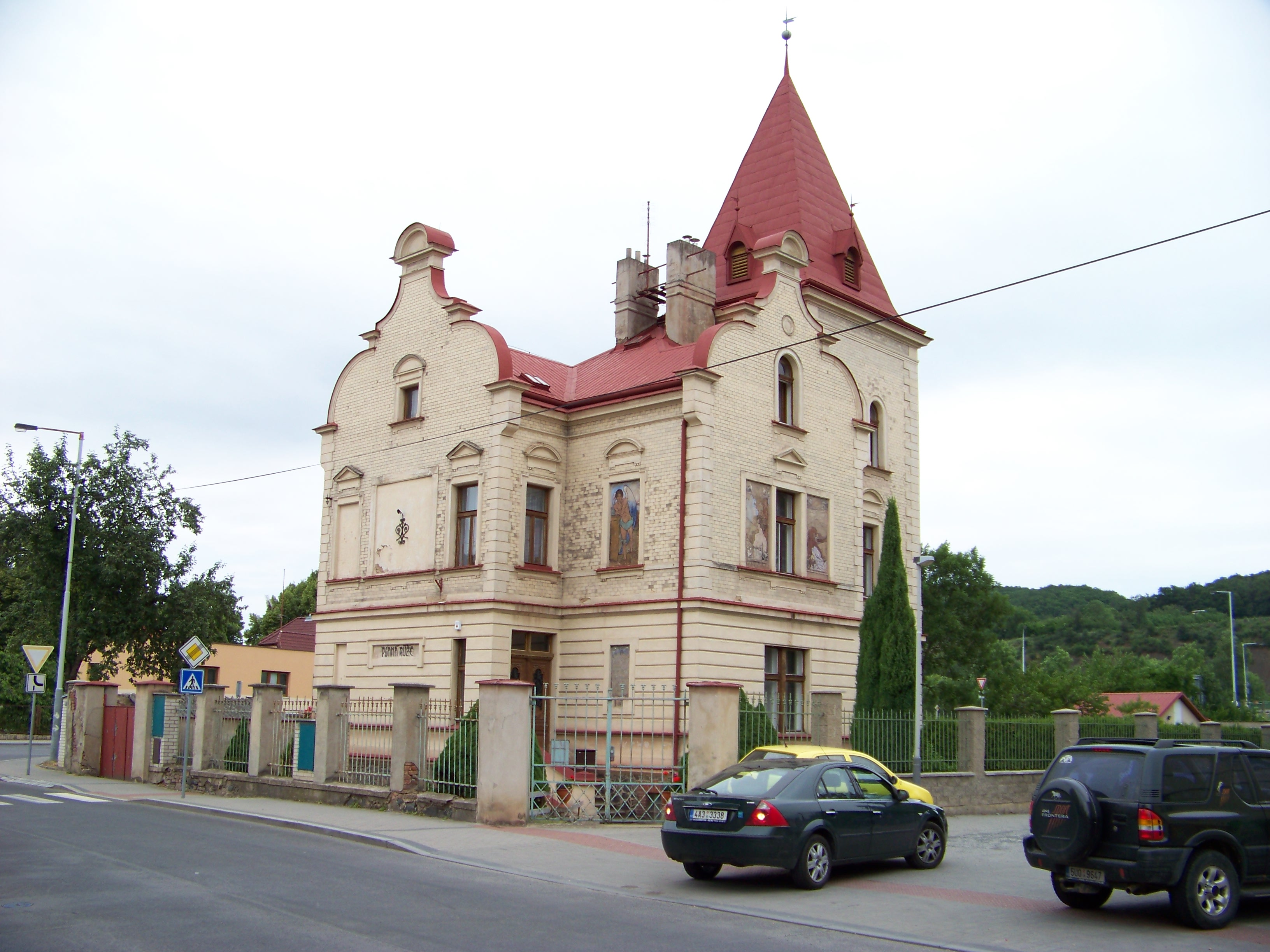 Prague-Zbraslav, the Czech Republic. Žitavského street. - OpenStreetMap(Info)